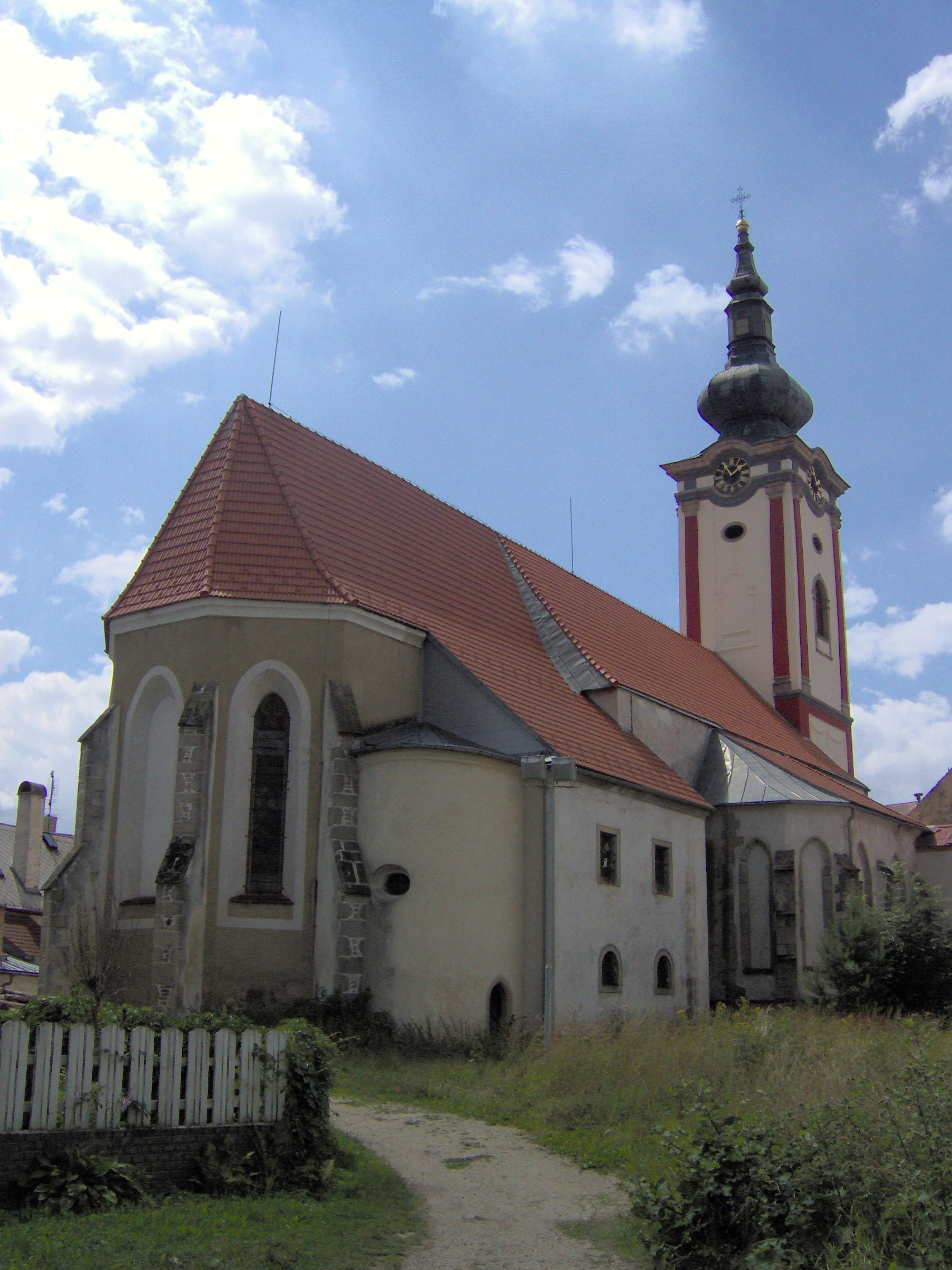 Saints Peter and Paul church, Nová Bystřice, Jindřichův Hradec District, Czech Republic